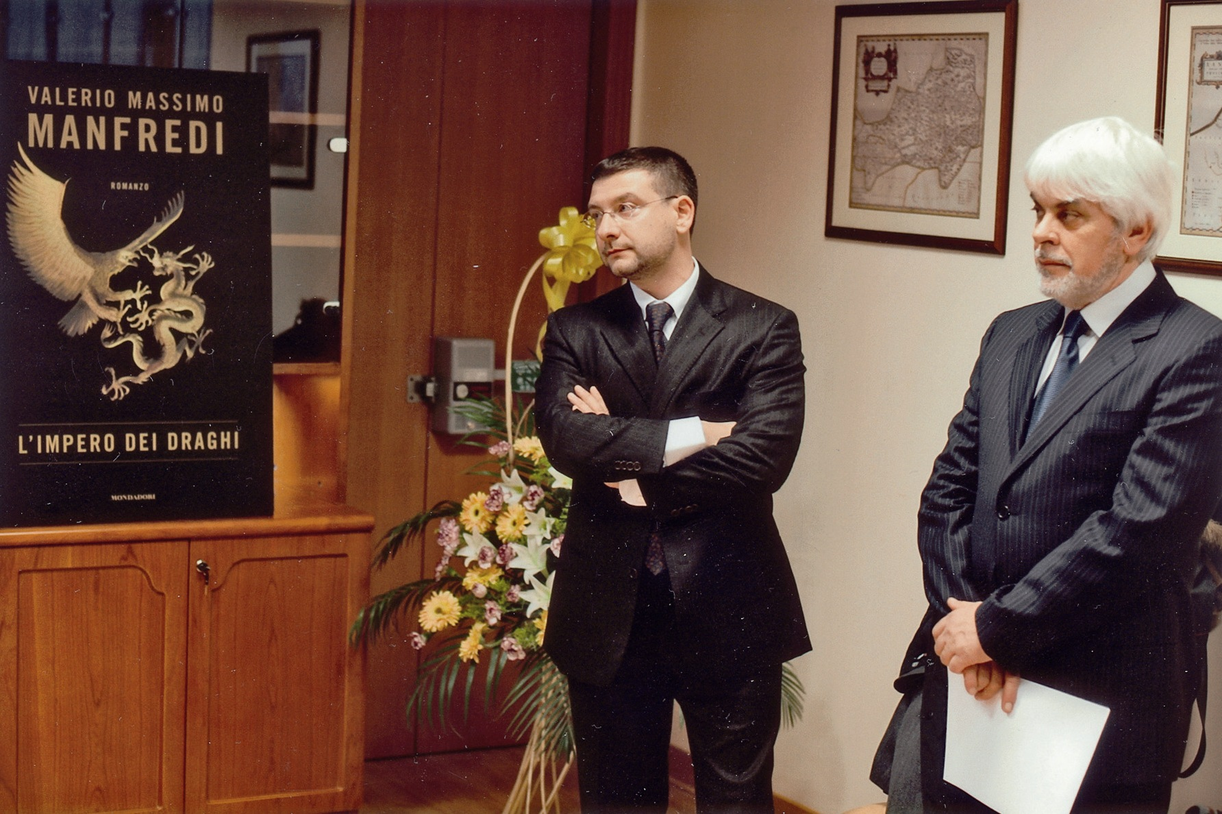 Italian author Valerio Massimo Manfredi (right).